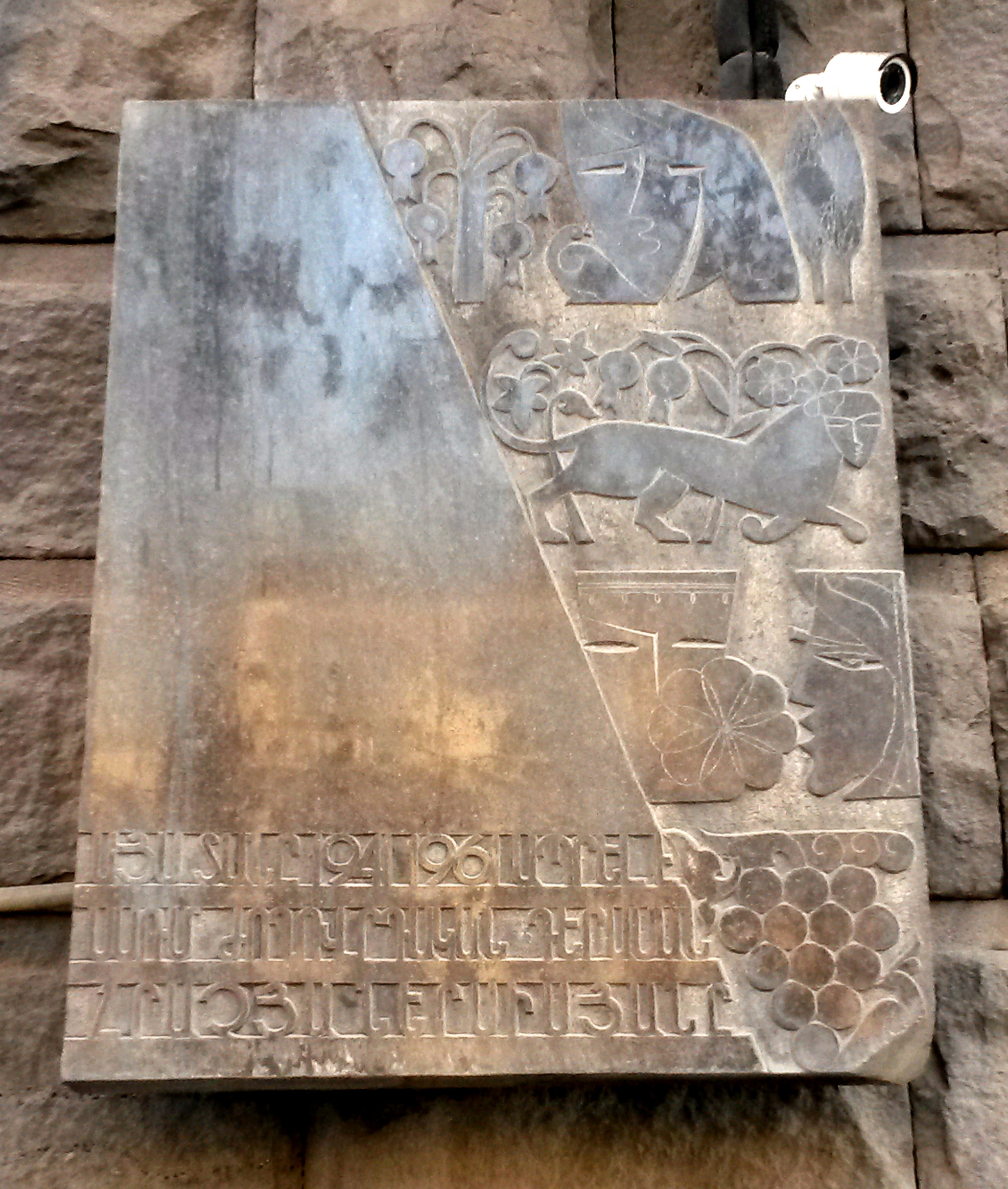 Hrachya Nersisyan's plaque in Yerevan